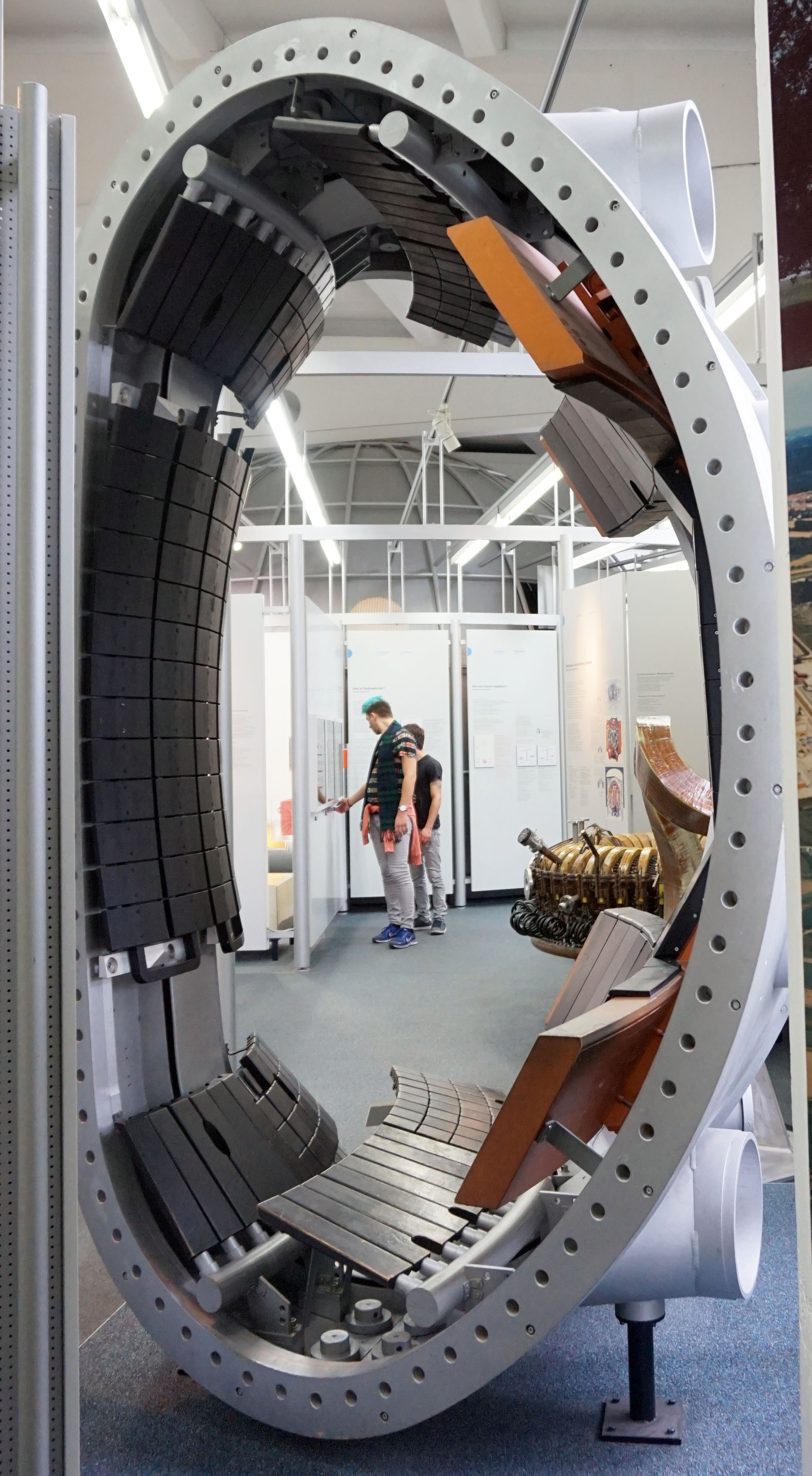 ASDEX Upgrade model in Deutsches Museum, Munich.This photograph was taken with a Sony ILCE-5000